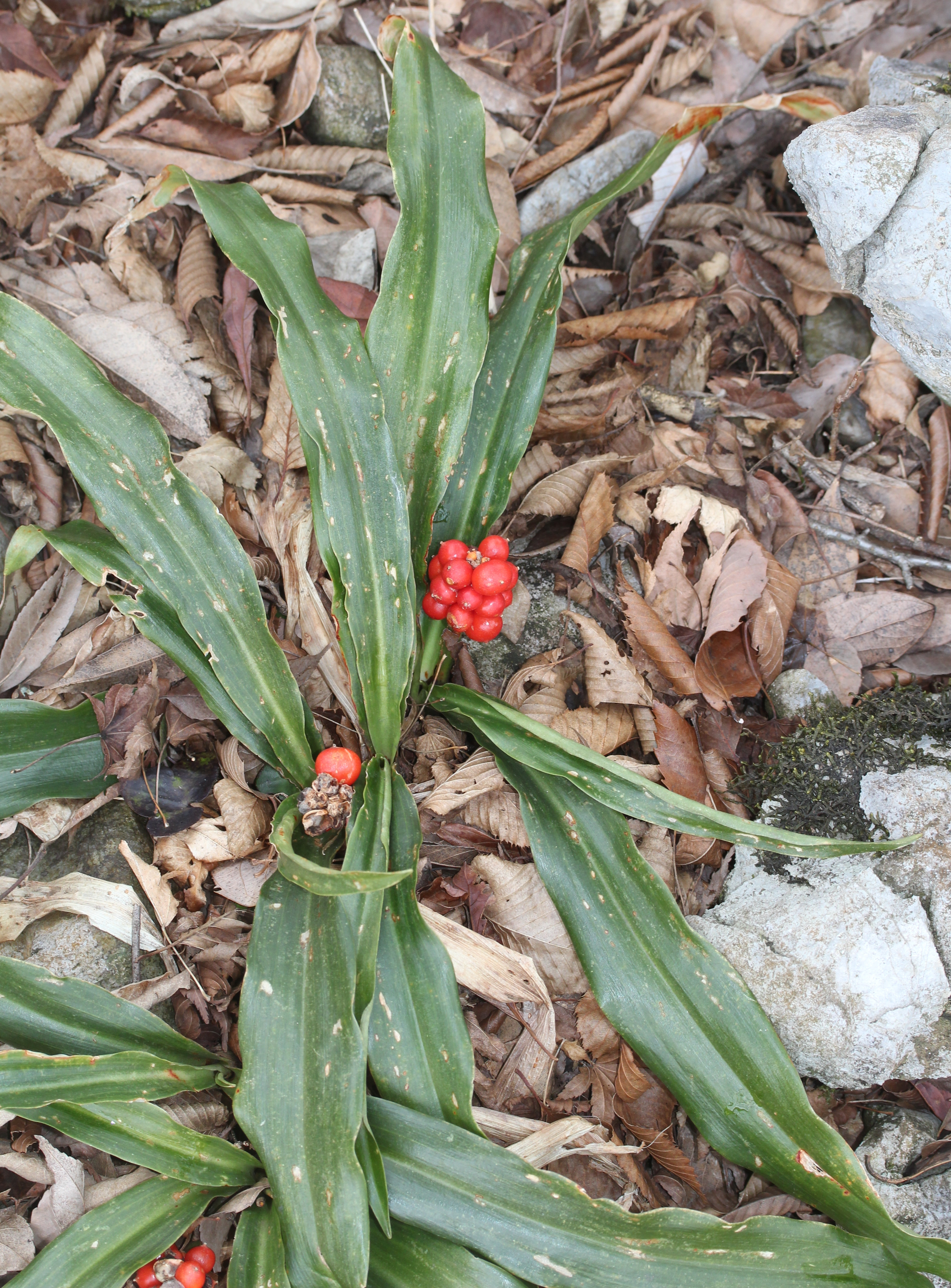 Rohdea japonica in Mount Fujiwara, Suzuka Mountains, Inabe, Mie Prefecture, Japan.